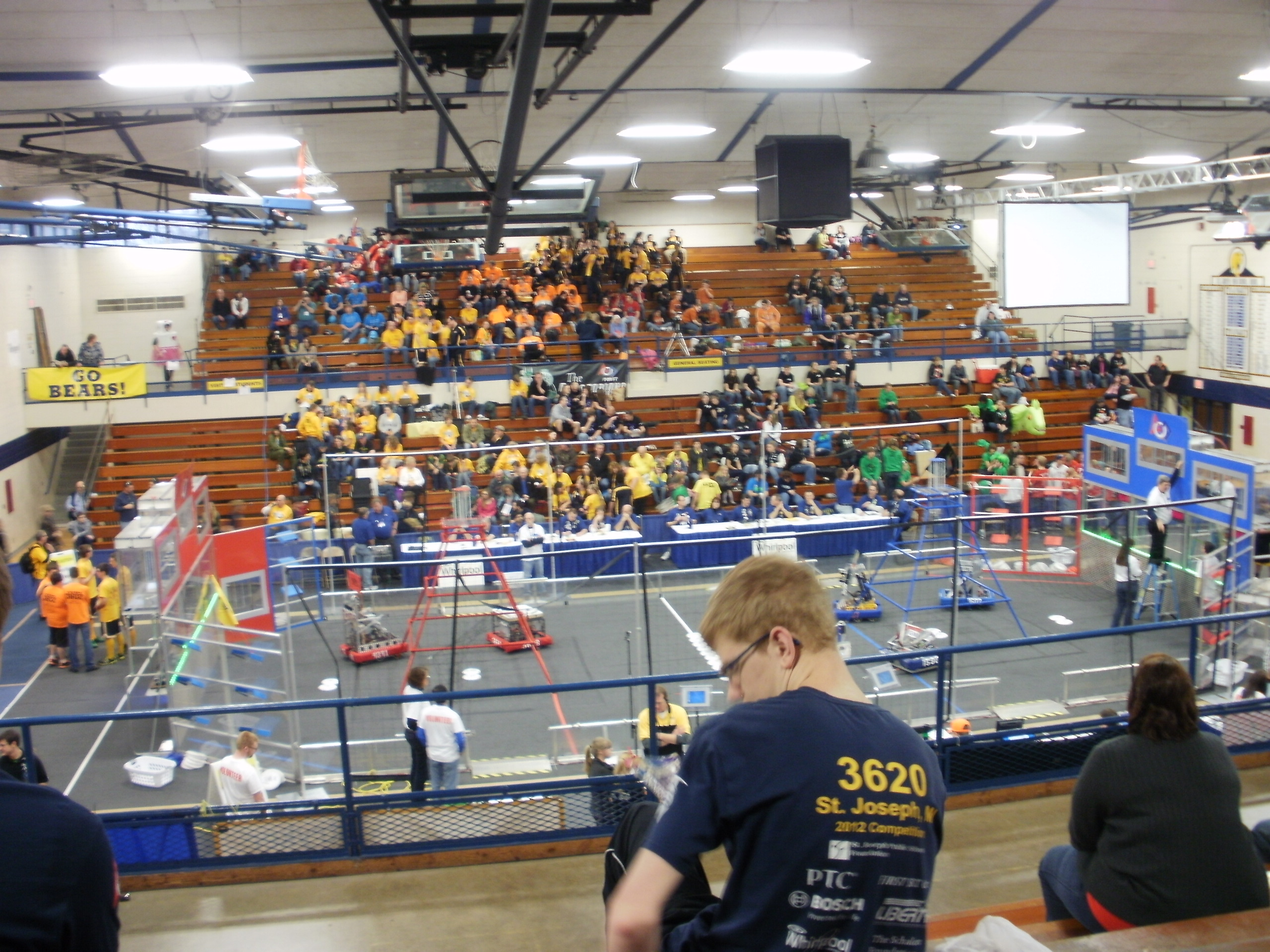 The Ultimate Acent playing field at the St. Joseph district event.